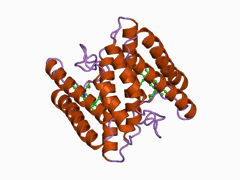 Cartoon representation of the molecular structure of protein registered with 1bbh code.